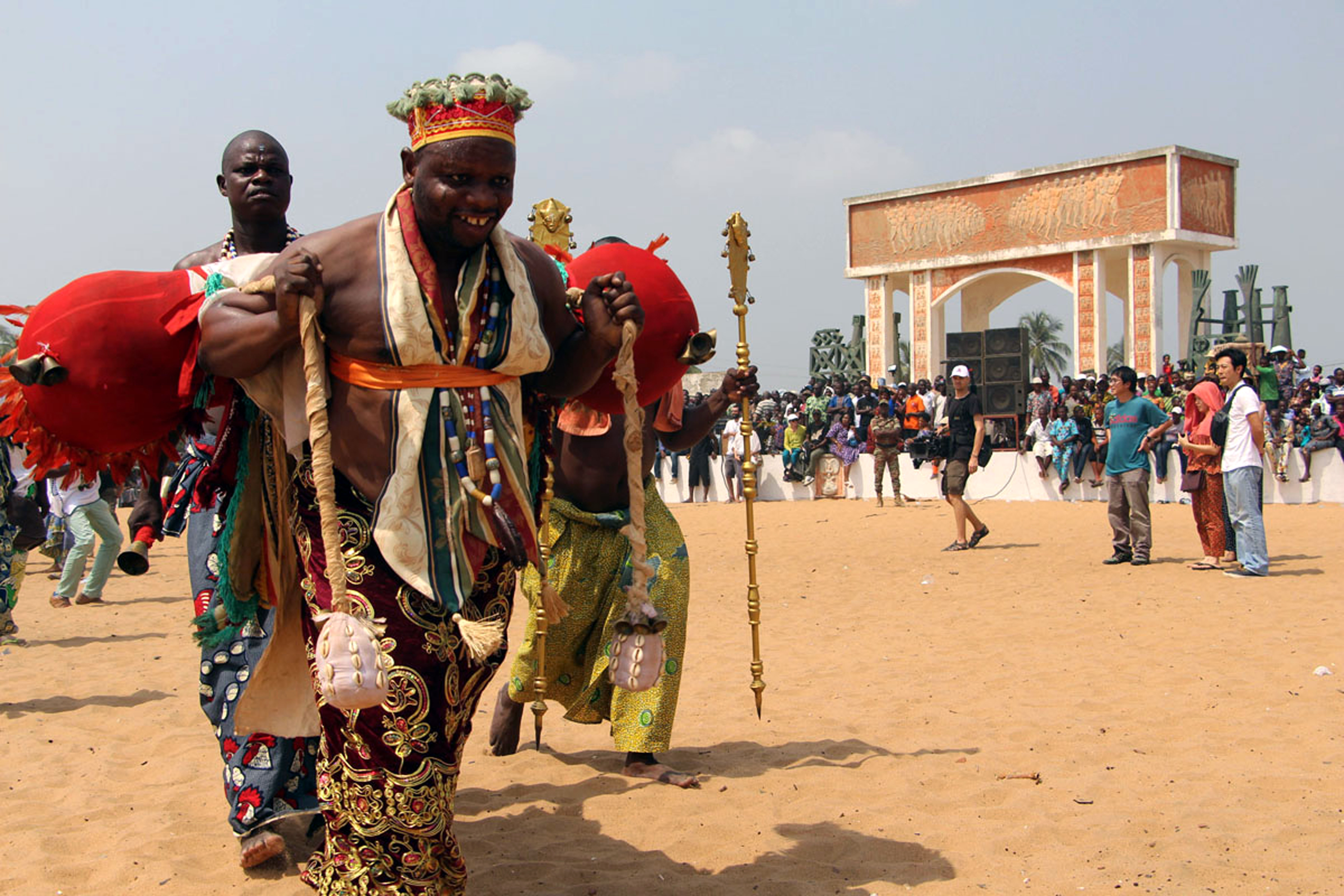 Sakpata's dance January 10, 2020 in Benin This is an image with the theme "Africa on the Move or Transport" from: Benin